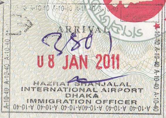 Rubber stamp on Bangladesh passport by Bangladesh Immigration Police denoting entry to Bangladesh via Hazrat Shahjalal Int'l Airport